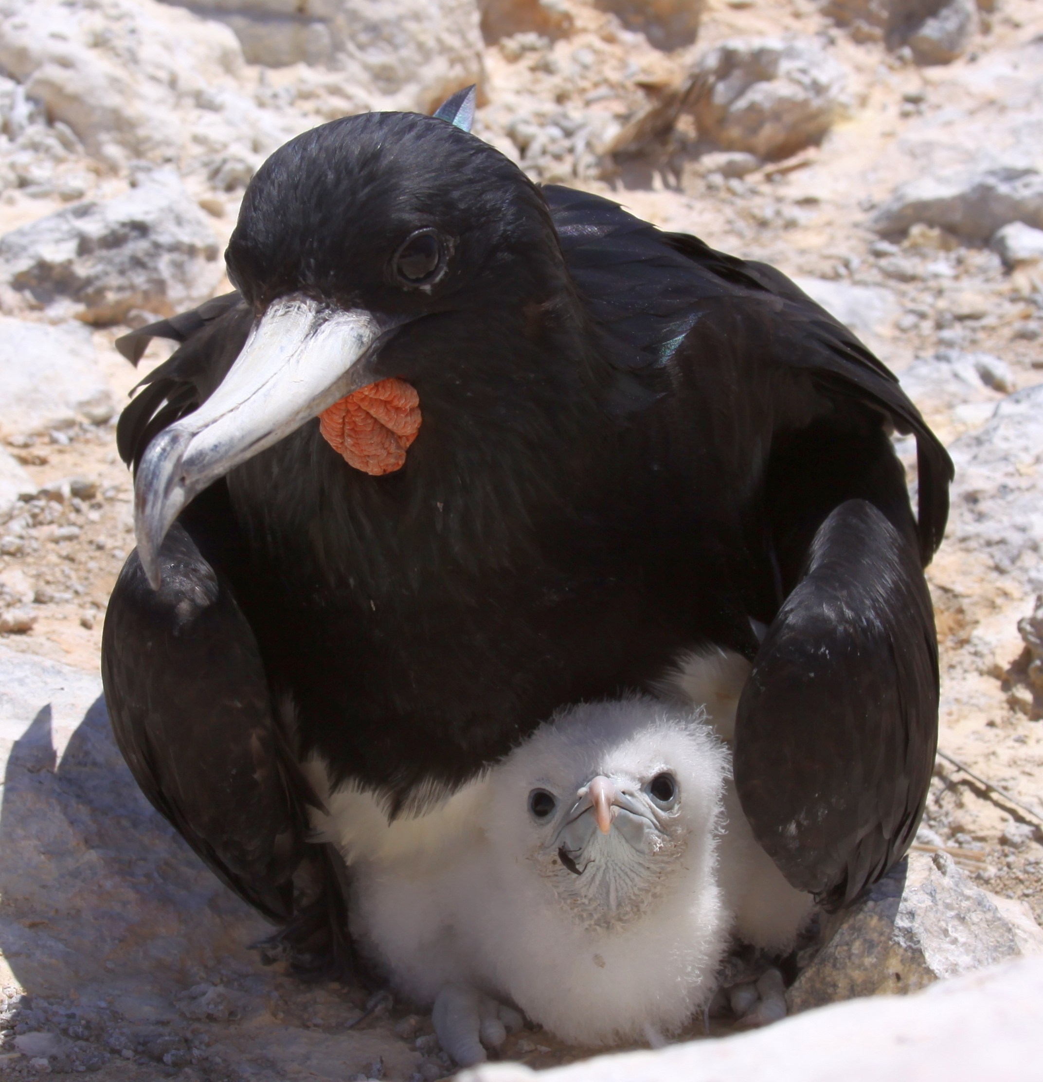 Male Frigatebird with chick (Fregata Aquila) at Boatswain Bird Island, Ascension Islands. 22 February 2013